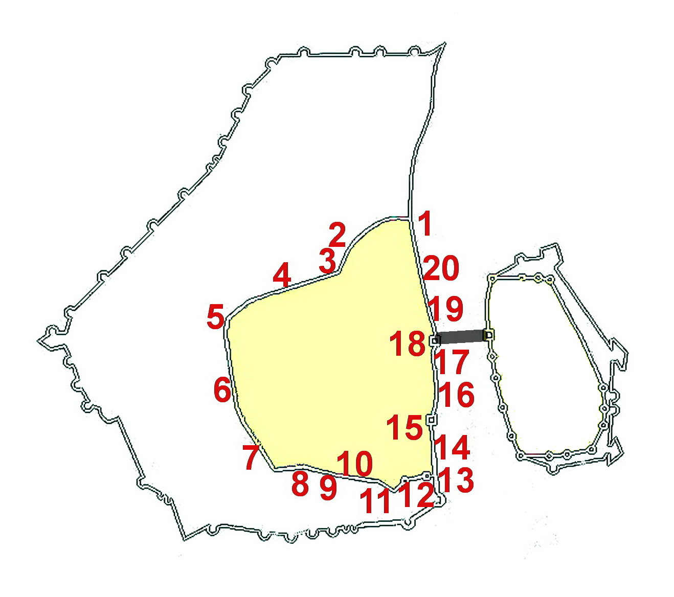 Stylized map of the medieval city of Maastricht, the Netherlands, showing the first medieval city wall (ca 1230). The bridge accross the river Meuse connects the two parts of the city. The names of gates, towers and bullwarks on the left bank are given below: 1.Veerlinxpoort · 2.Leugenpoort · 3.Grote Poort · 4.Preekherengang · 5.Tweebergenpoort · 6.Borchgraeve · 7.Lenculenpoort · 8.Klein Grachtje · 9.Looierspoort · 10.Lang Grachtje · 11.Minderbroederspoort · 12.Helpoort · 13.Jekertoren · 14.Onze-Lieve-Vrouwewal · 15.Onze-Lieve-Vrouwepoort · 16.Batpoort · 17.Visserspoort · 18.Schuttenpoort · 19.Jodenpoort · 20.Molenpoort